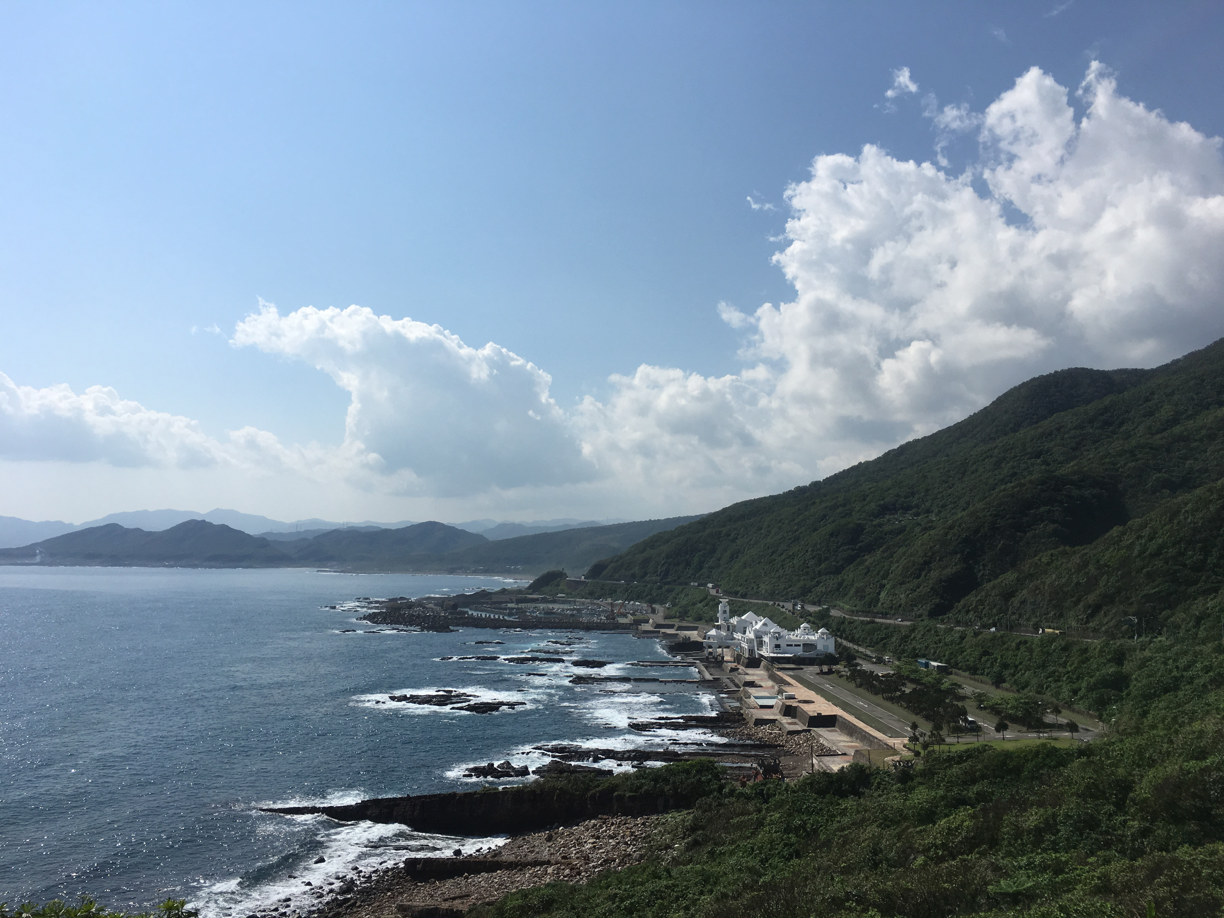 Longdong Four Seasons Bay.